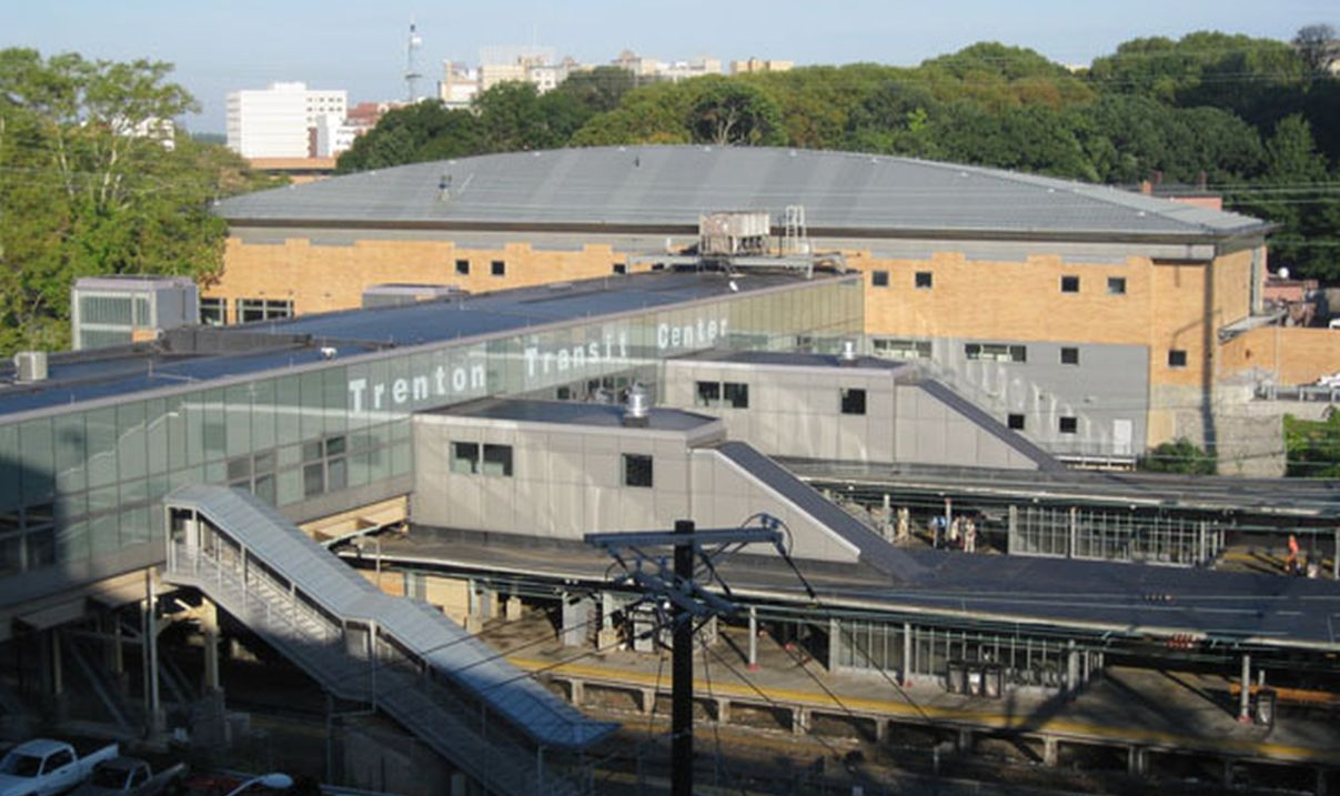 Overview of the Trenton Transit Center station facility, facing west towards the headhouse and Downtown Trenton, New Jersey.